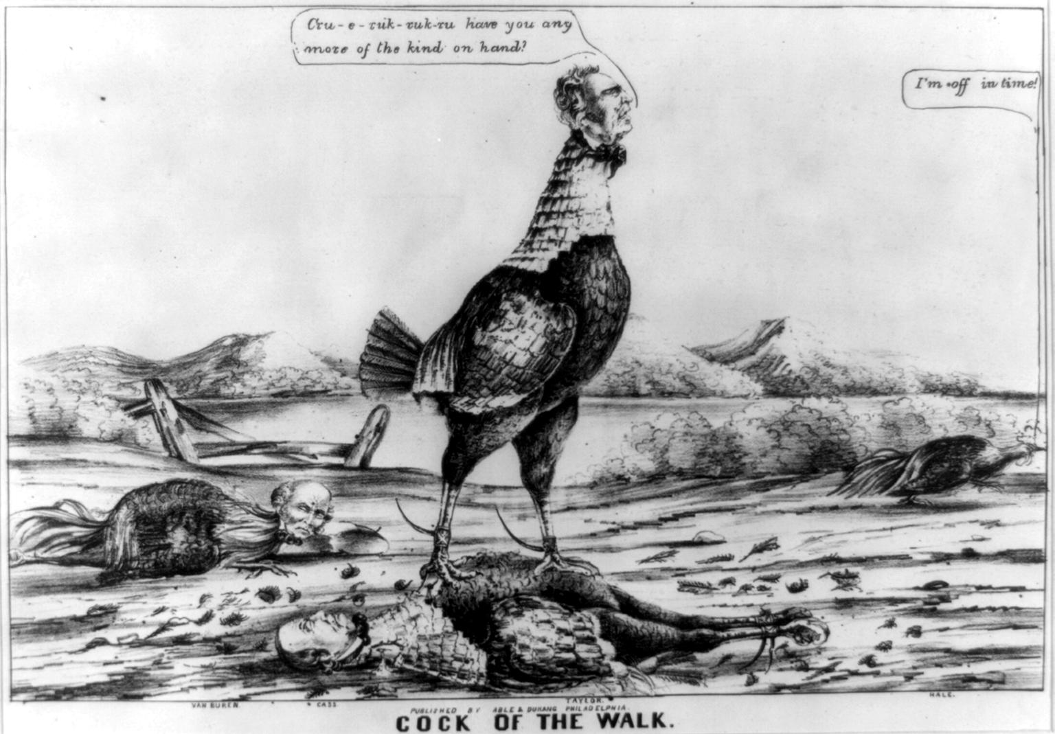 Cock of the walk. "The title refers to Whig candidate Zachary Taylor as the probable victor in the 1848 presidential contest. Taylor is portrayed as a victorious fighting cock, standing over his dead opponent, another cock with the head of Democratic candidate Lewis Cass."